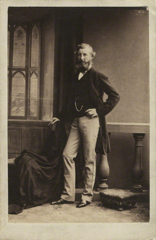 William Drogo Montagu, 7th Duke of Manchester (1823-1890), Army officer; Politician; Lord of the Bedchamber to Prince Albert.